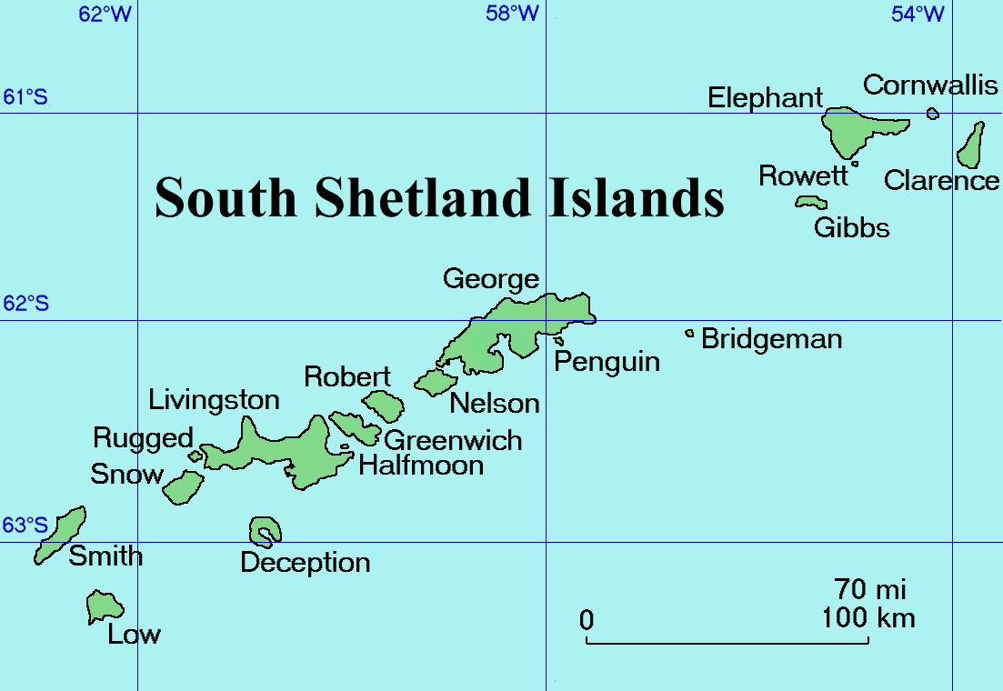 Map of the South Shetland Islands